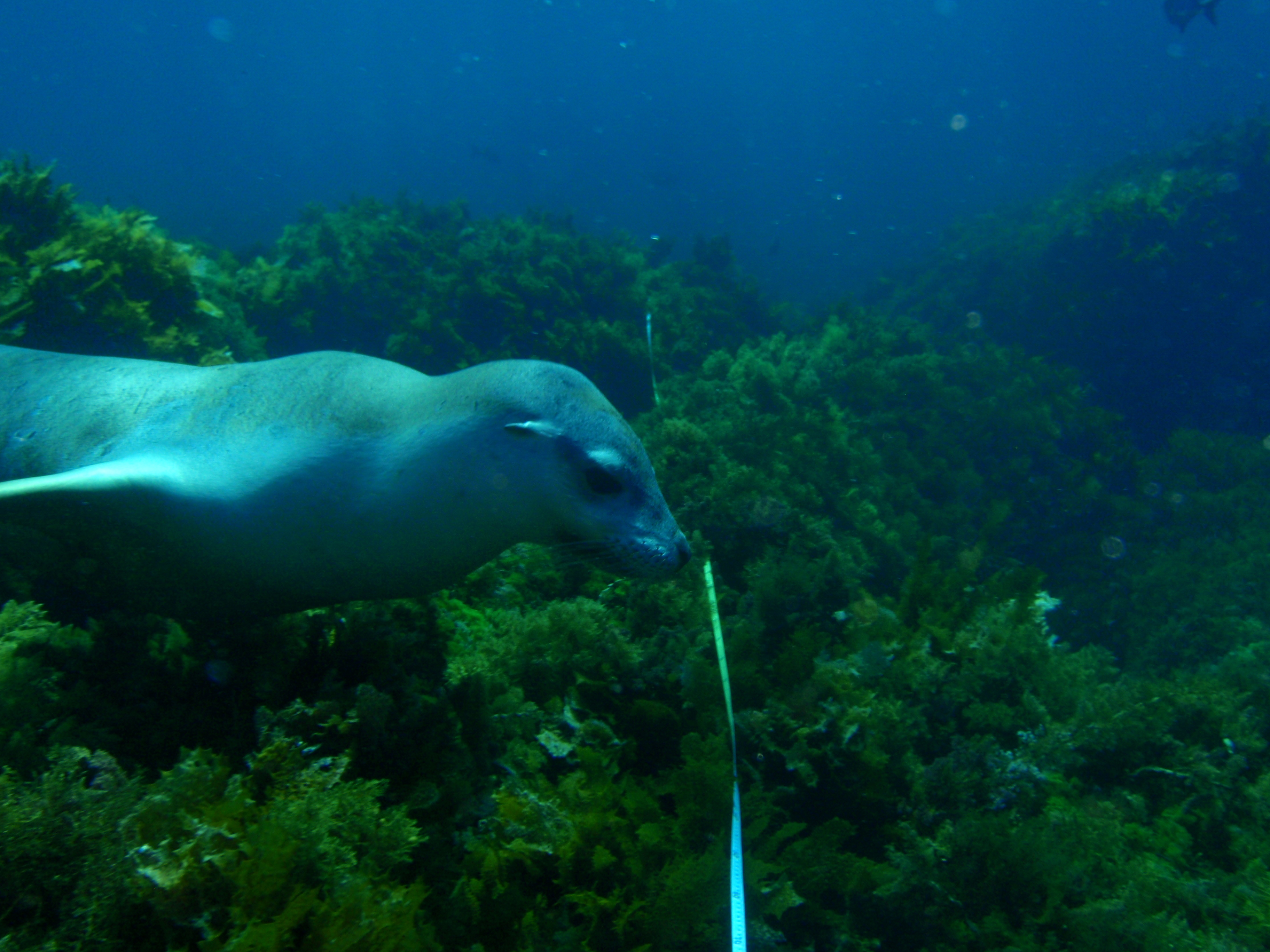 Australian sealion Neophoca cinerea at the east side of Pearson Island, South Australia